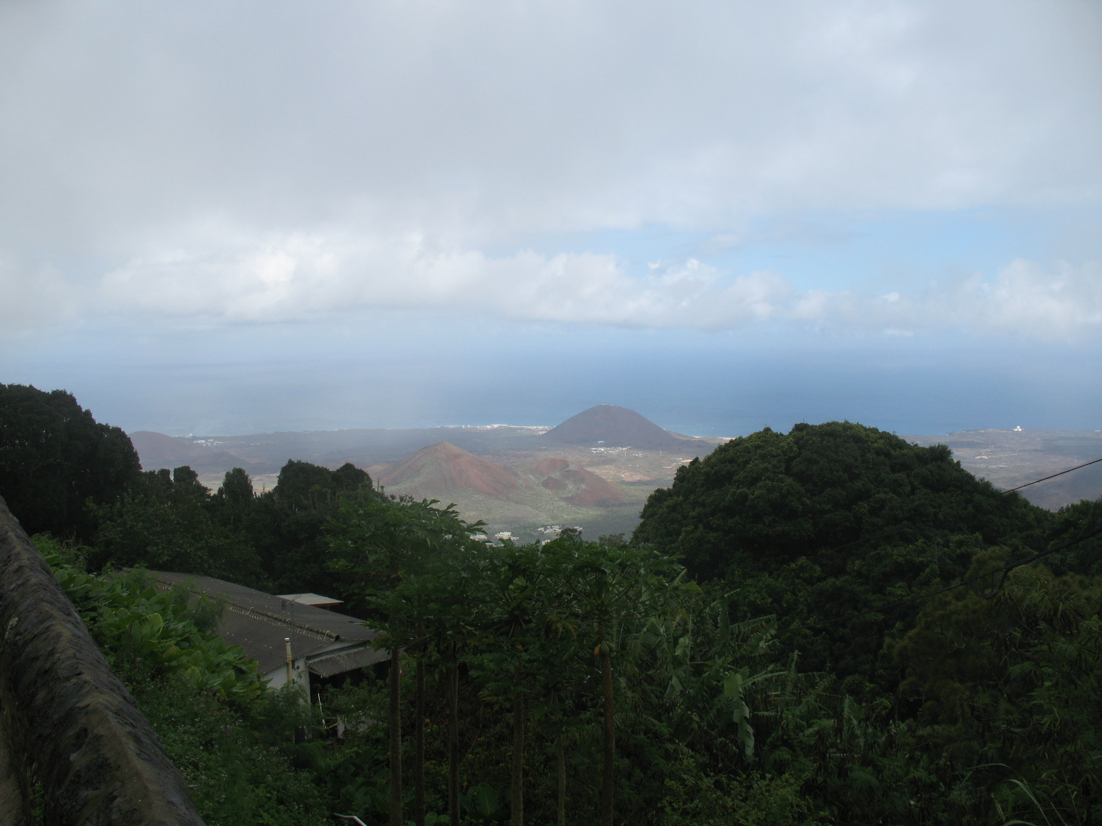 View of Ascension Island with Georgetown in the distance